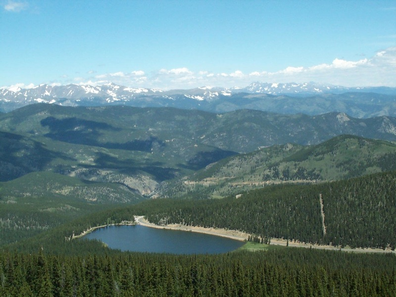 Photo of Echo Lake Park from above. Taken by flickr user kleinman in June, 2001. CC-BY-2.0 as of 2007-02-17.